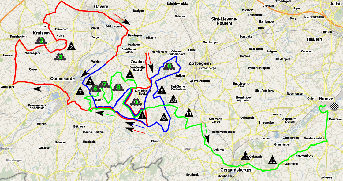 Circuit Het Nieuwsblad 2019, part 2 of the circuit.